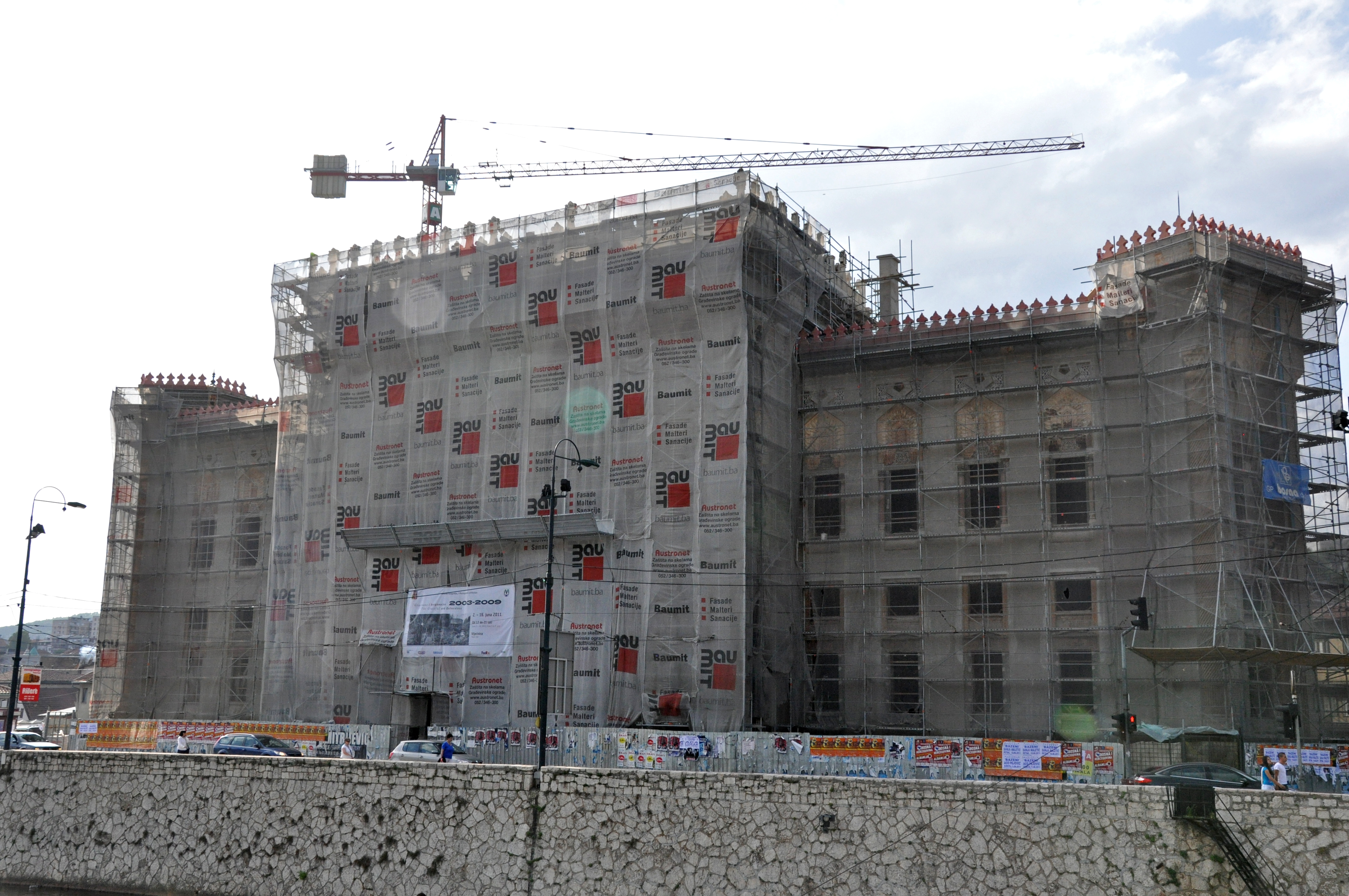 The National Library, once the town hall, was constructed in 1896. On August 25, 1992, a shell fired from the lines of the Serbian forces wiped out a large part of the Bosnian literary heritage that was kept in the building; over two million books and documents went up in flames and only 1% of the library’s books could be saved. 200 people died trying to save books from the inferno. It reminds me of Isaac Asimov’s quote, “It is not only the living who are killed in war.” Restoration work is still ongoing.